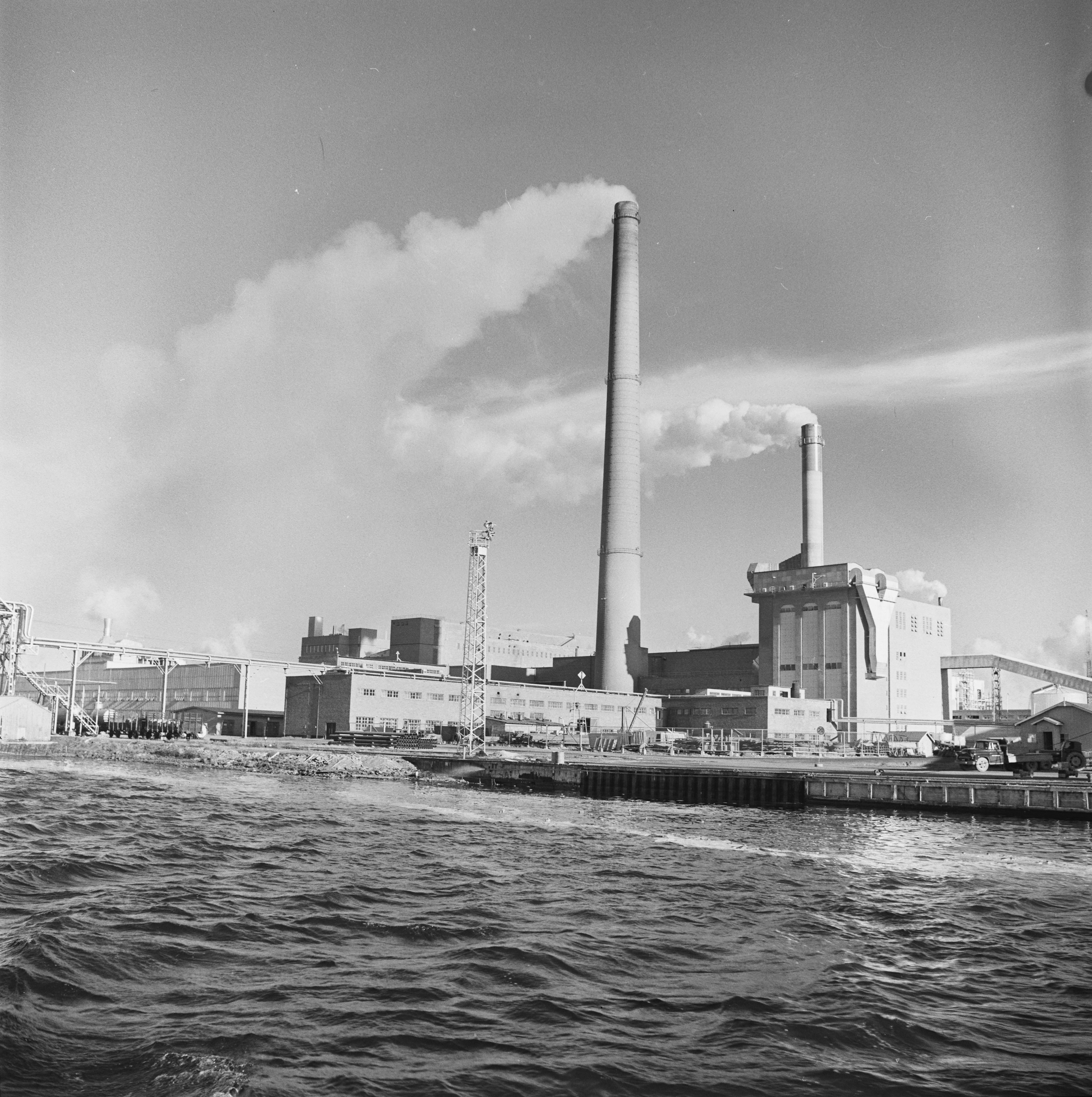 Pulp mill of Oulu Oy.